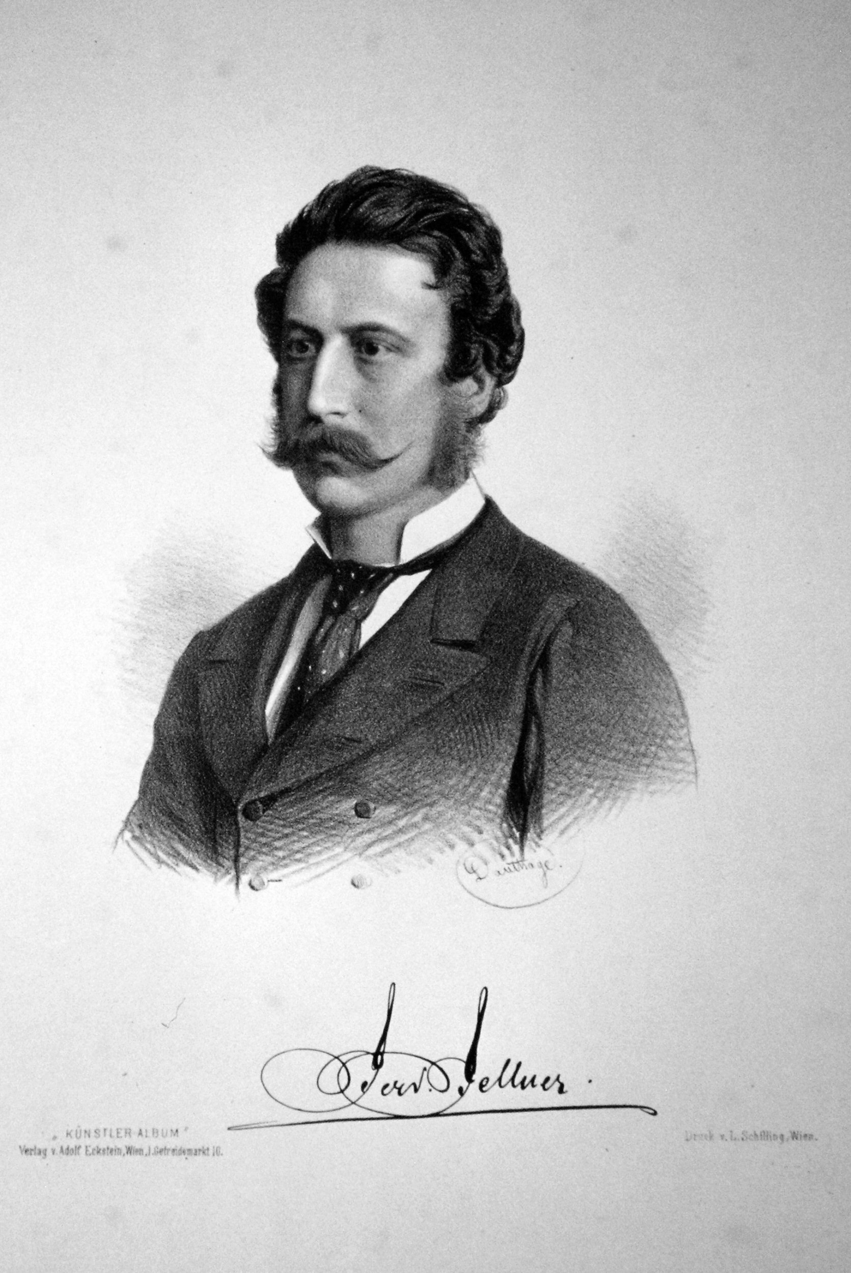 Ferdinand Fellner (1847-1918), Austrian Architect. Lithograph by Adolf Dauthage, ca. 1880 From "Künstler-Album" published by A. Eckstein, Vienna